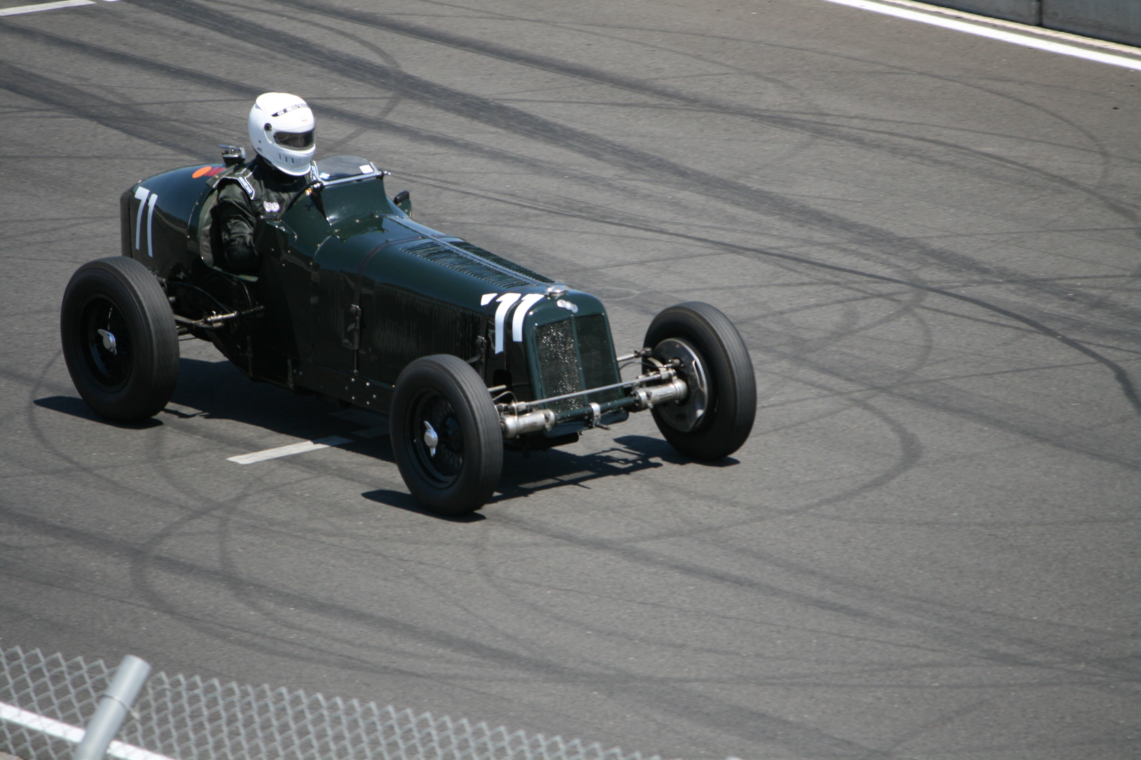 1934 ERA R2A at Monterey 2008